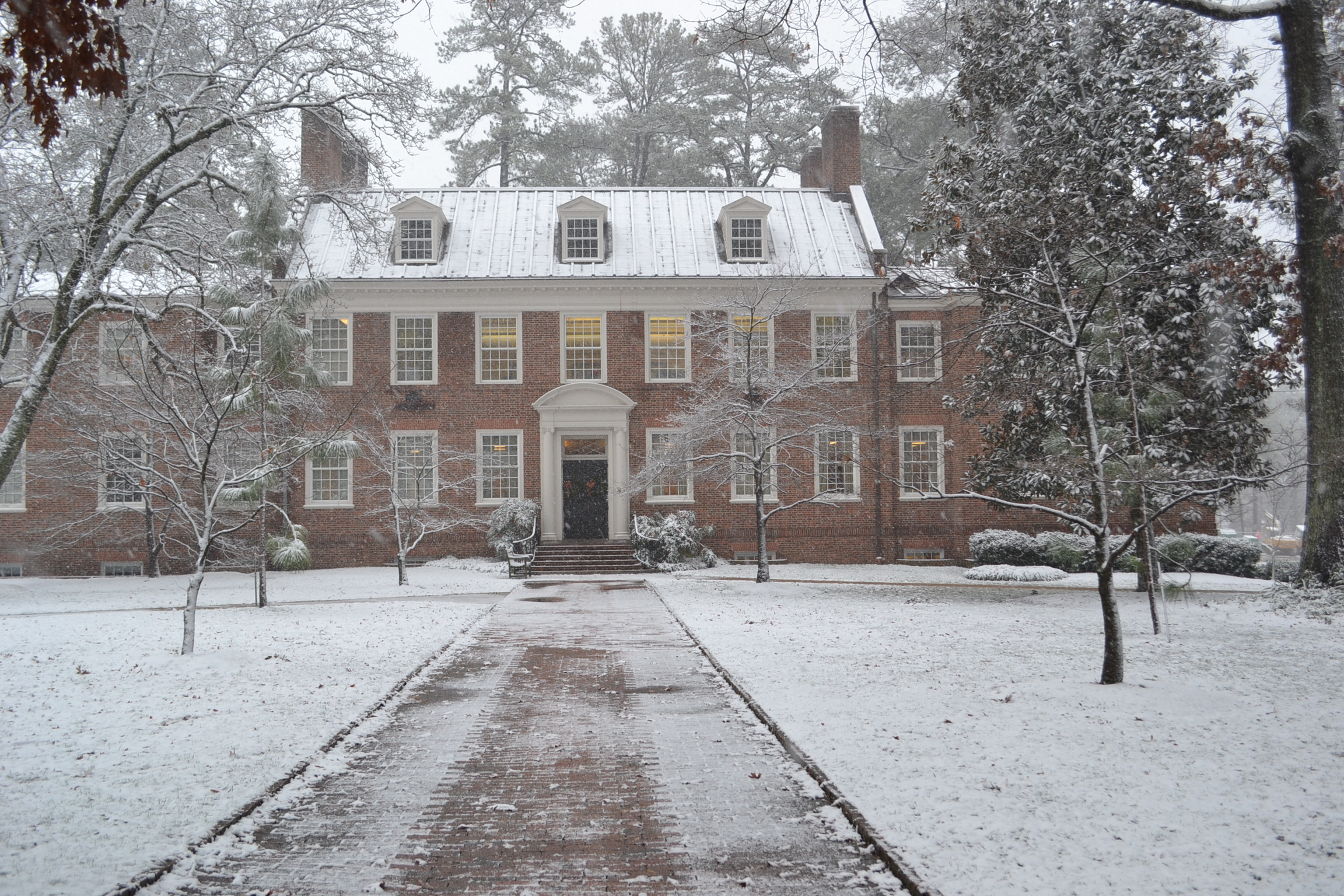 St. Christopher's during the winter.